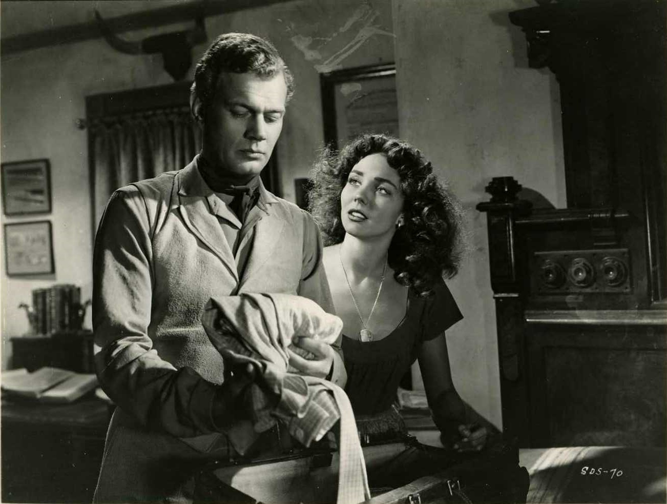 Publicity photo of Joseph Cotten and Jennifer Jones taken for the film Duel in the Sun (1946). See also film still. No copyright notice.